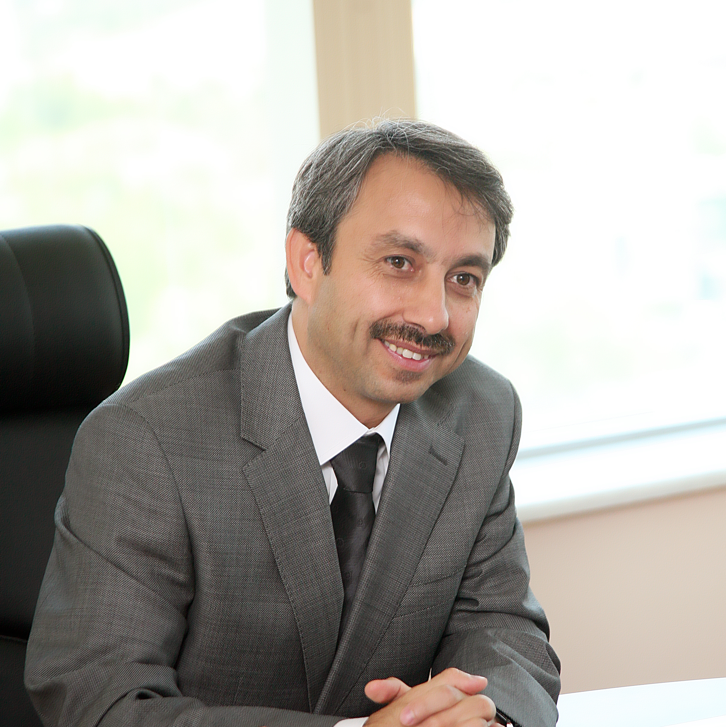 Prof. Dr. Yener Yörük, Rector of the Trakya University Edirne 2012